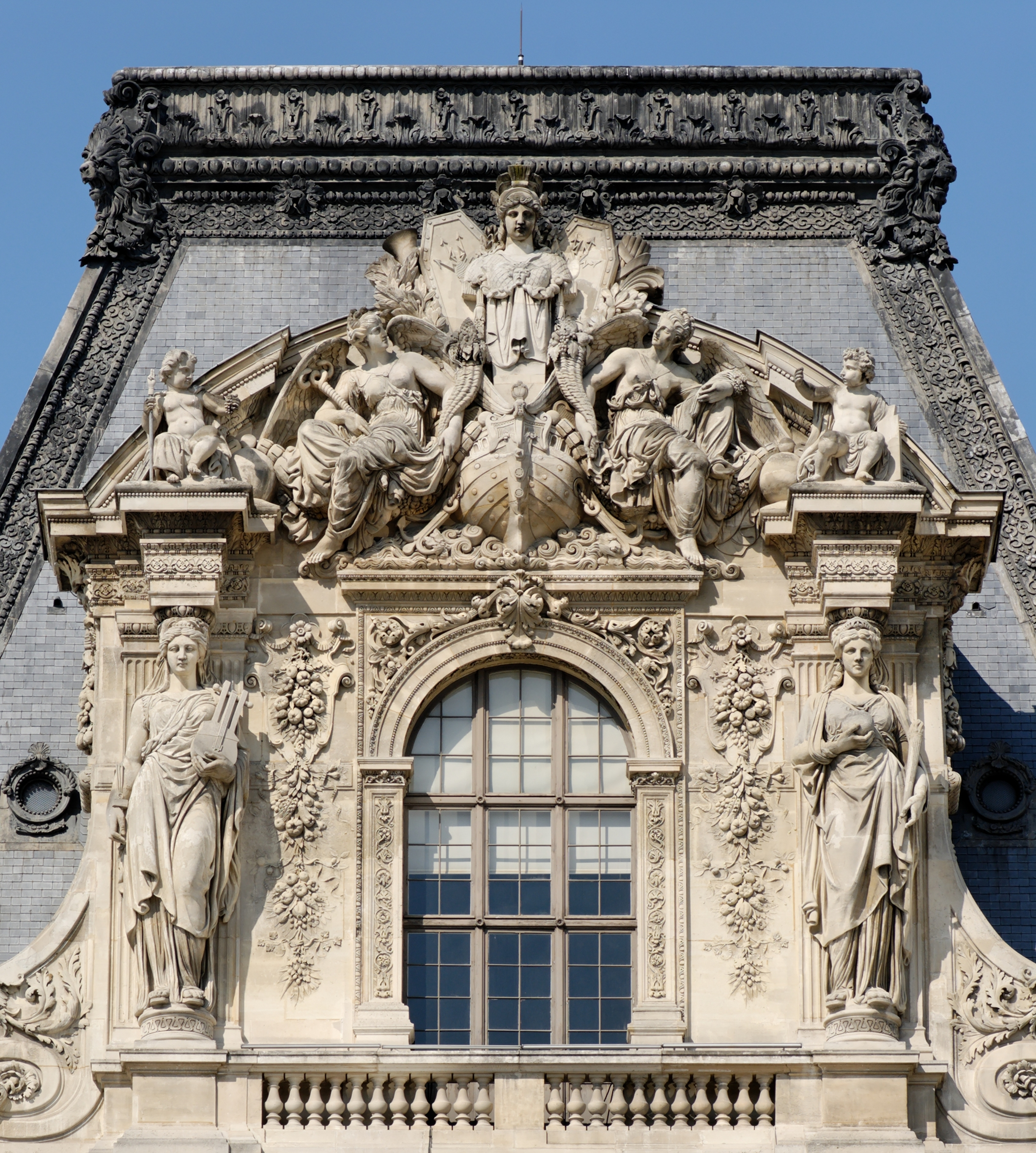 Pediment and caryatids of the south facade of the Pavillon Turgot (Louvre) by Eugène Guillaume (1822-1905), ca. 1857.